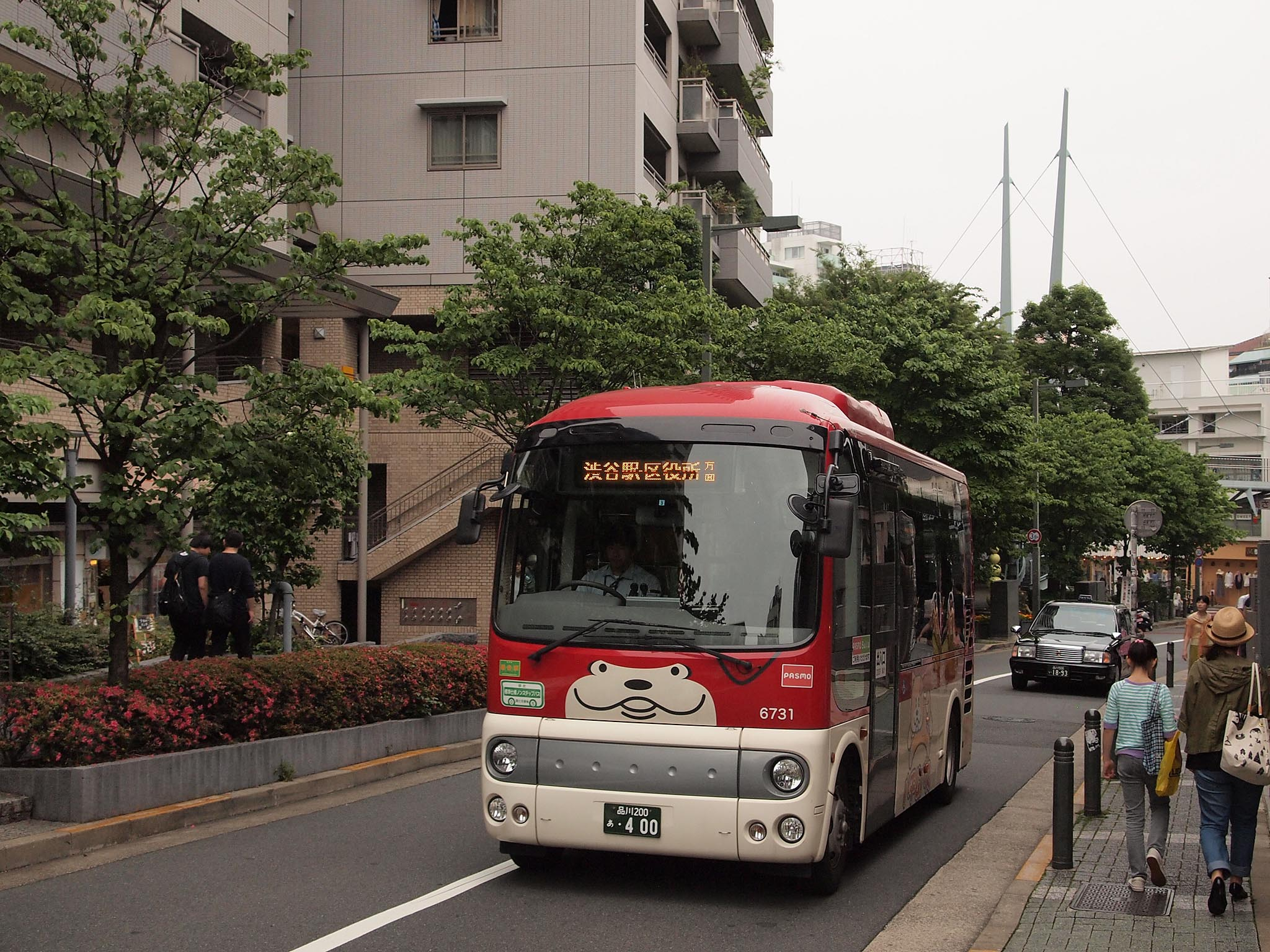 Hachiko Bus "Yu-yake Koyake"route, operated by Tokyu Bus, through at Daikan-yama Address. Model: Hino Poncho BDG-HX6JHAE License plate: TKS200 A-400